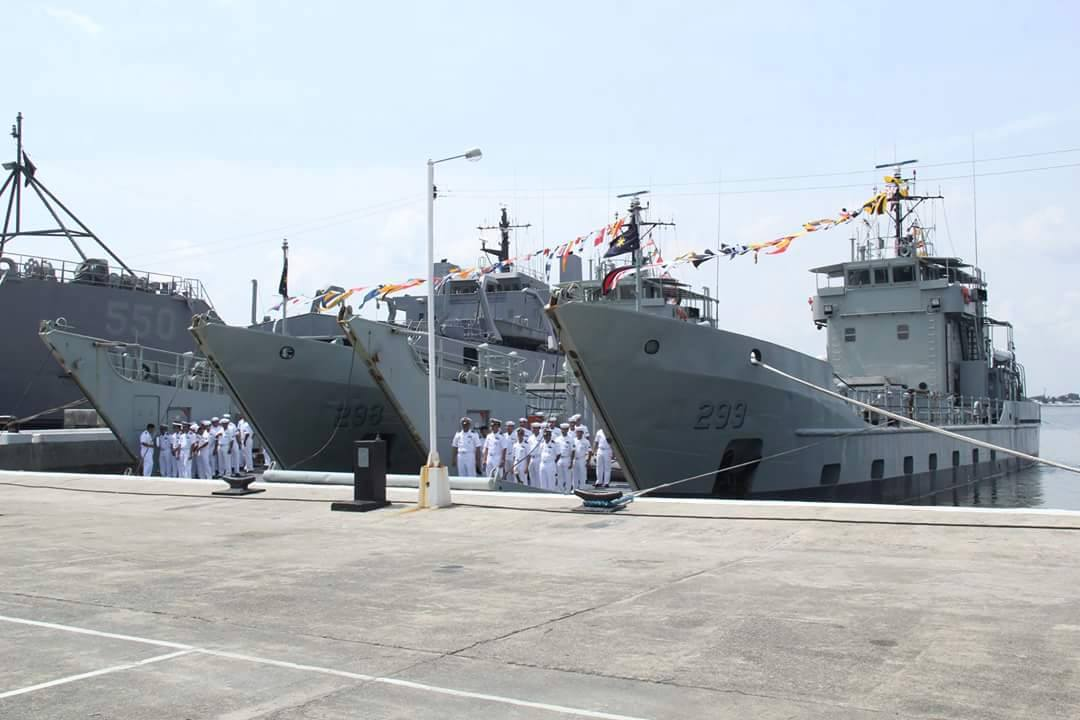 BRP Batak and BRP Ivatan side by side in Cavite Naval Base on August 7,2015.